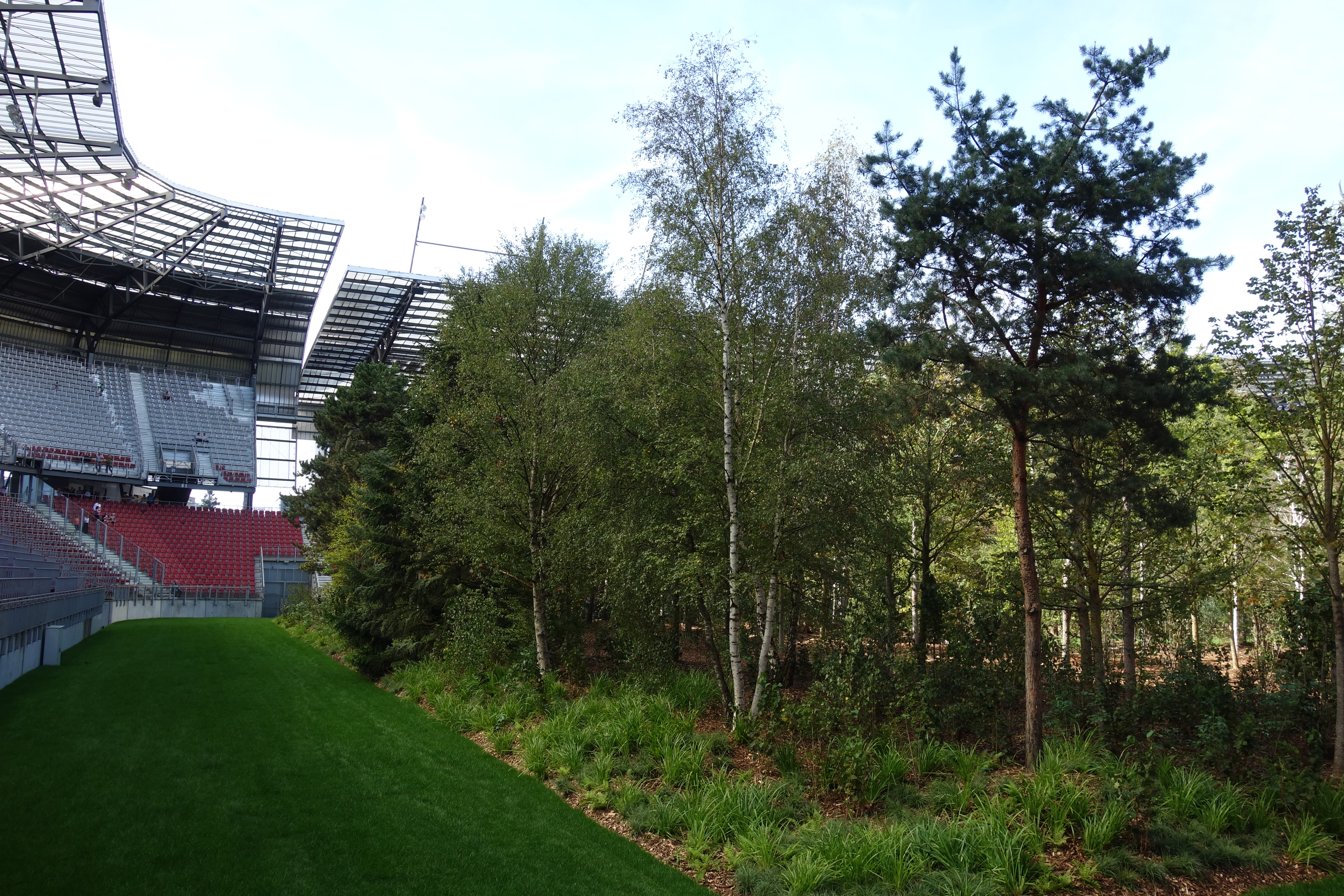 Wörthersee Stadion - For Forest